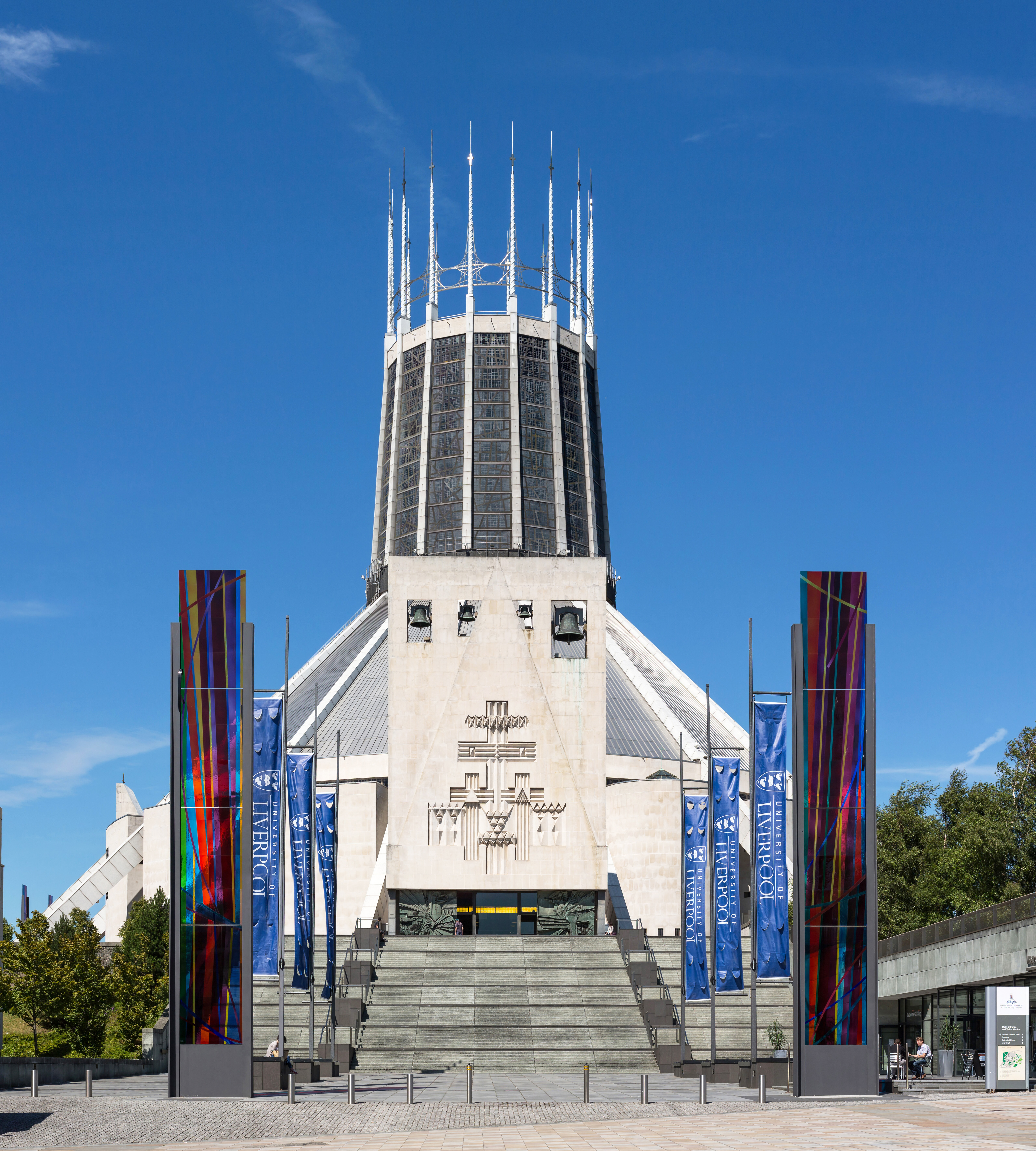 The view of Liverpool Metropolitan Cathedral. from Pleasant St in Liverpool, England.